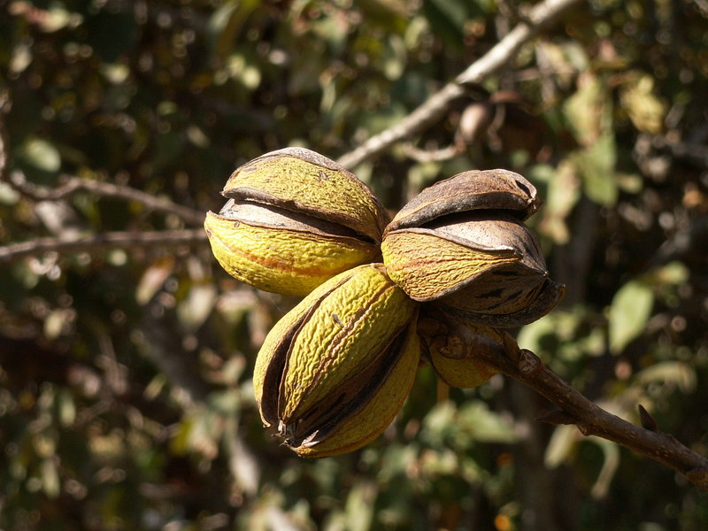 Picture of ripe pecan-nuts photographed in Hadera, Israel.